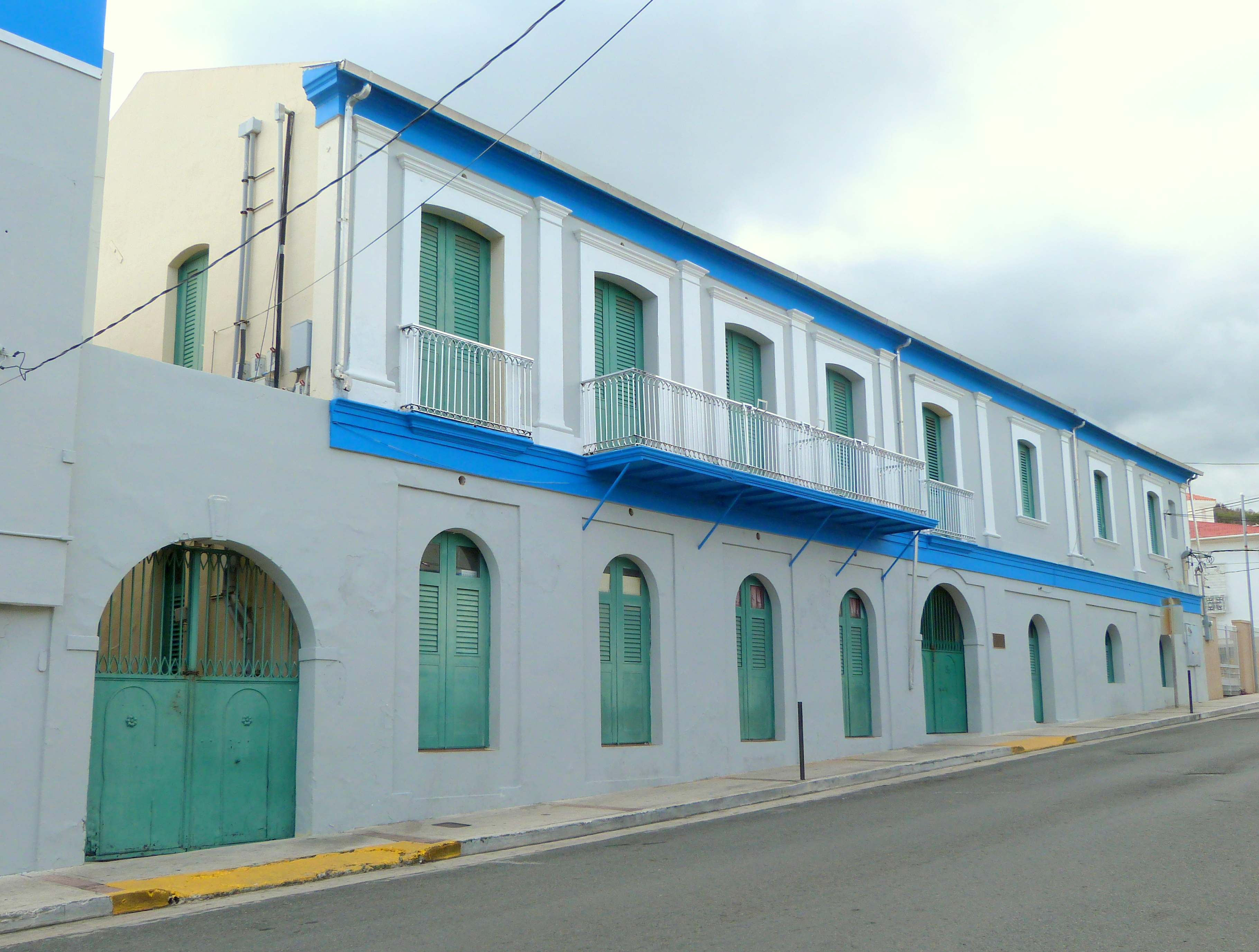 The historic Casa Agostini (built early 19th century), located on Calle Dr. Gatell in Yauco, Puerto Rico, is listed on the U.S. National Register of Historic Places.